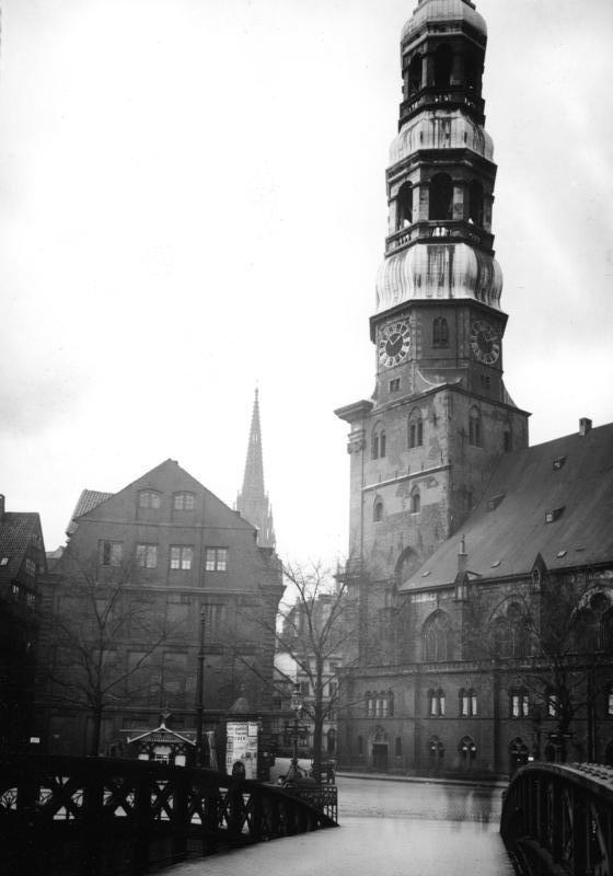 Hamburg Katharinenkirche. Im Hintergrund Turm der Nikolaikirche Information added by Wikimedia users.This is a photograph of an architectural monument. Die Brücke im Vordergrund ist die Jungfernbrücke.